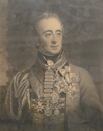 Portrait of Major-General Sir Denis Pack